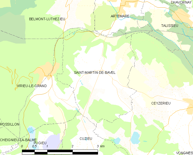 Map of French commune: Saint-Martin-de-Bavel Map commune FR insee code 01372.png